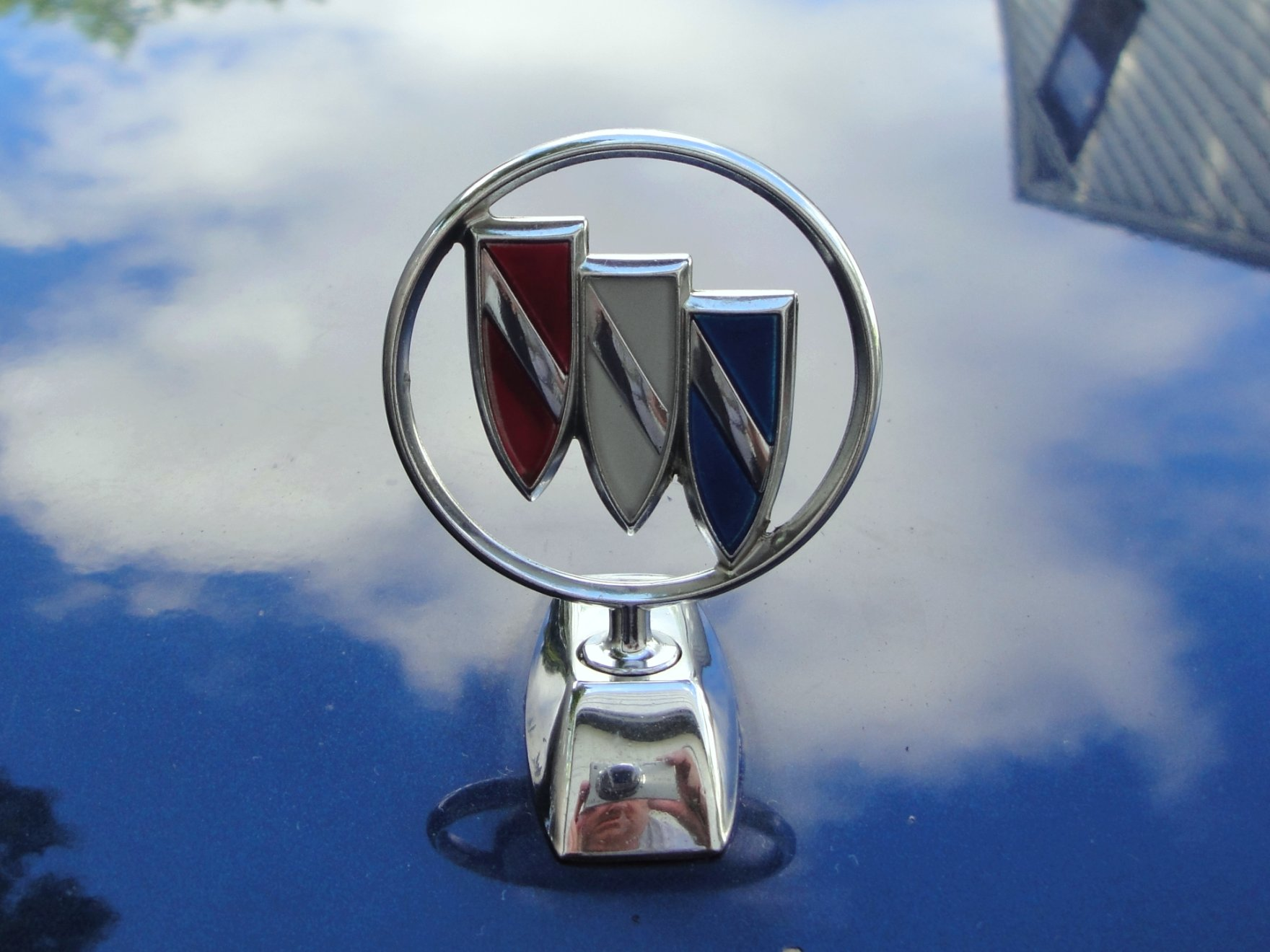 90 Buick LeSabre Custom